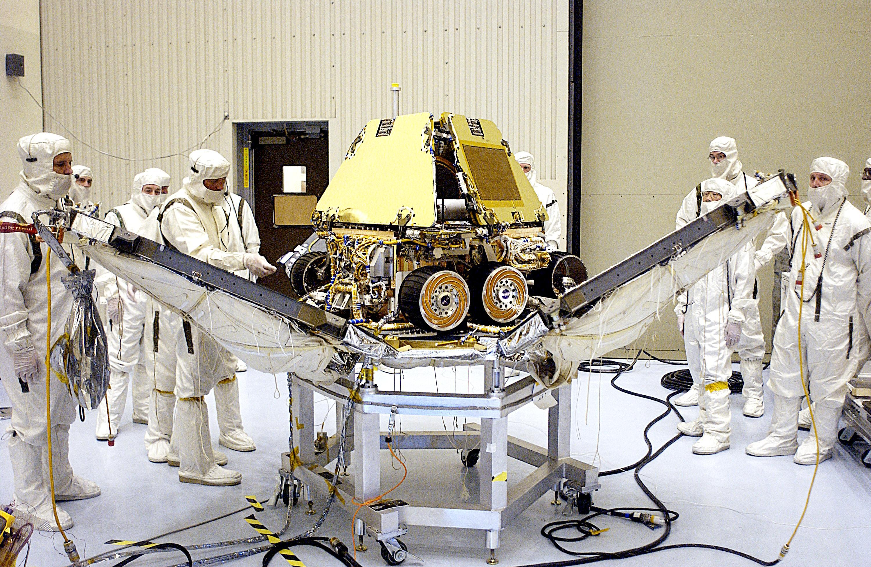 In the Payload Hazardous Servicing Facility, technicians reopen the lander petals of the Mars Exploration Rover 2 (MER-2) to allow access to one of the spacecraft's circuit boards. A concern arose during prelaunch testing regarding how the spacecraft interprets signals sent from its main computer to peripherals in the cruise stage, lander and small deep space transponder. The MER Mission consists of two identical rovers set to launch in June 2003. The problem will be fixed on both rovers.